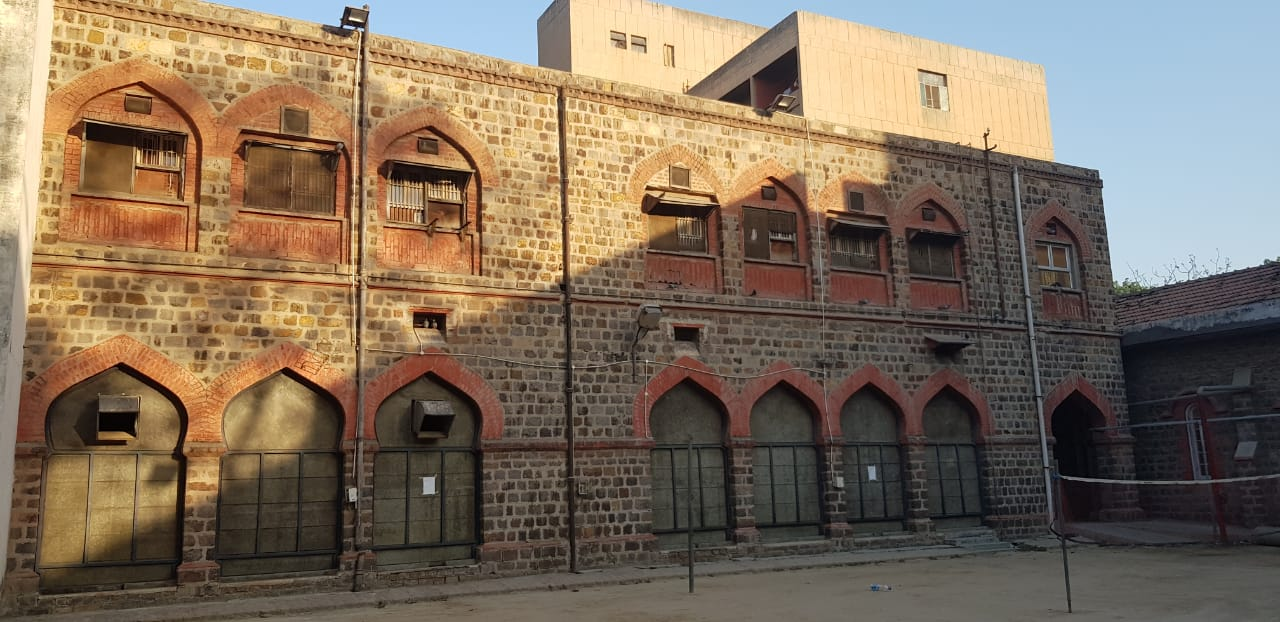 Old St Stephen's Hospital Building at Tis Hazari, now part of the Nursing College